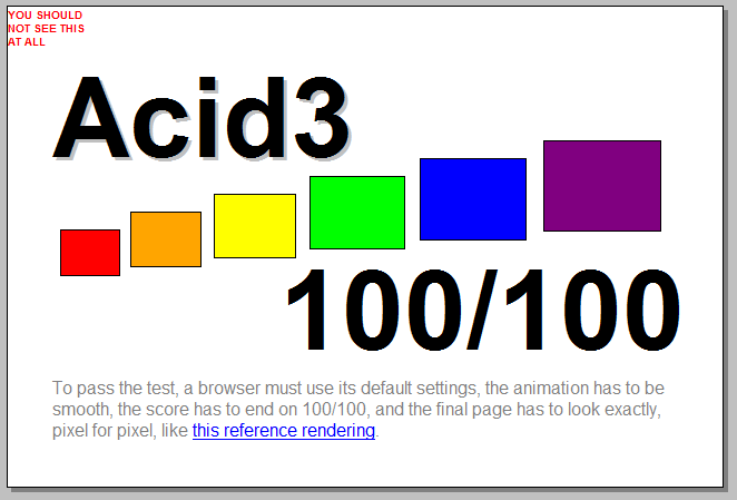 Maxthon v3.0.10.12 rendering the Acid3 compliance test in "Ultra" mode (WebKit engine), scoring 100/100, but failing the "You should not see this at all" test. In "Retro" mode (Trident engine), Maxthon scores 6 to 13 points. Česky: Maxthon verze 3.0.10.12 vykreslován v testu Acid3 v "Ultra" módu (jádro WebKit), získal 100/100, ale neprošel v testu "You should not see this at all". V "Retro" módu (jádro Trident), dostal Maxthon 6 ze 13 bodů.